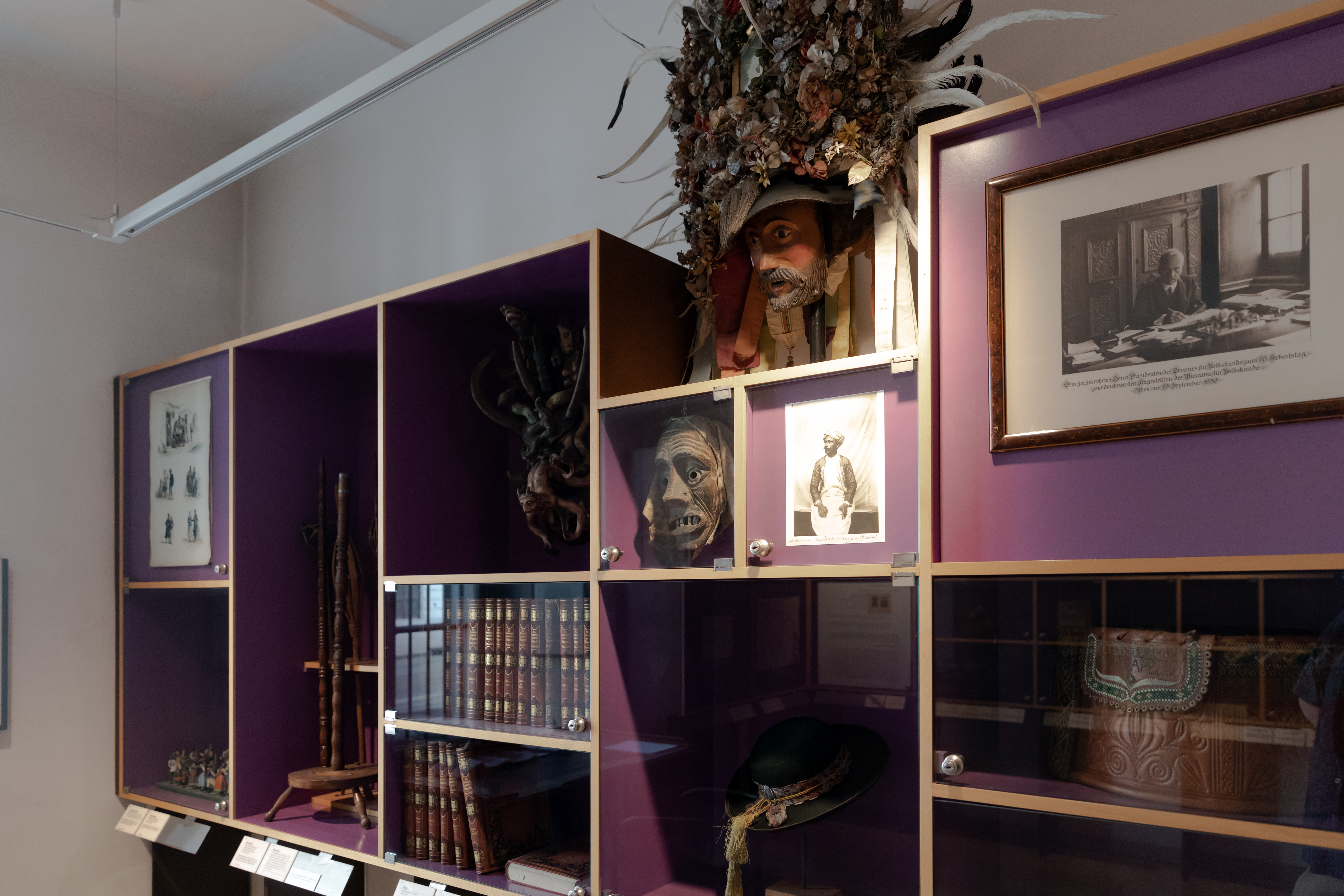 Austrian Museum of Folk Life and Folk Art at Palais Schönborn, Vienna, Austria.